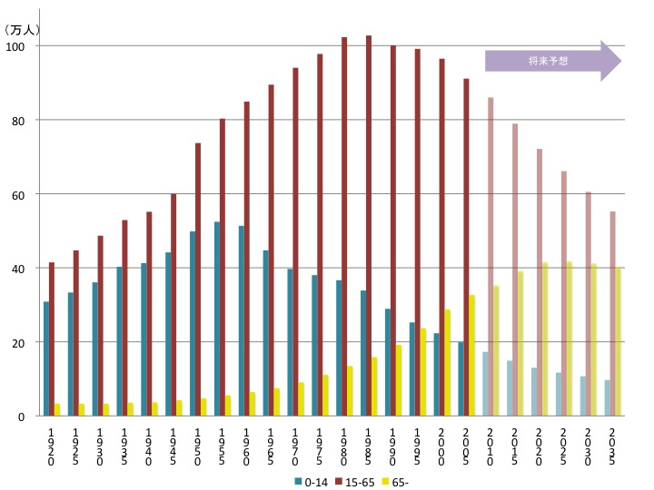 Change of young adlt and older stage population Aomori 1920-2035.png